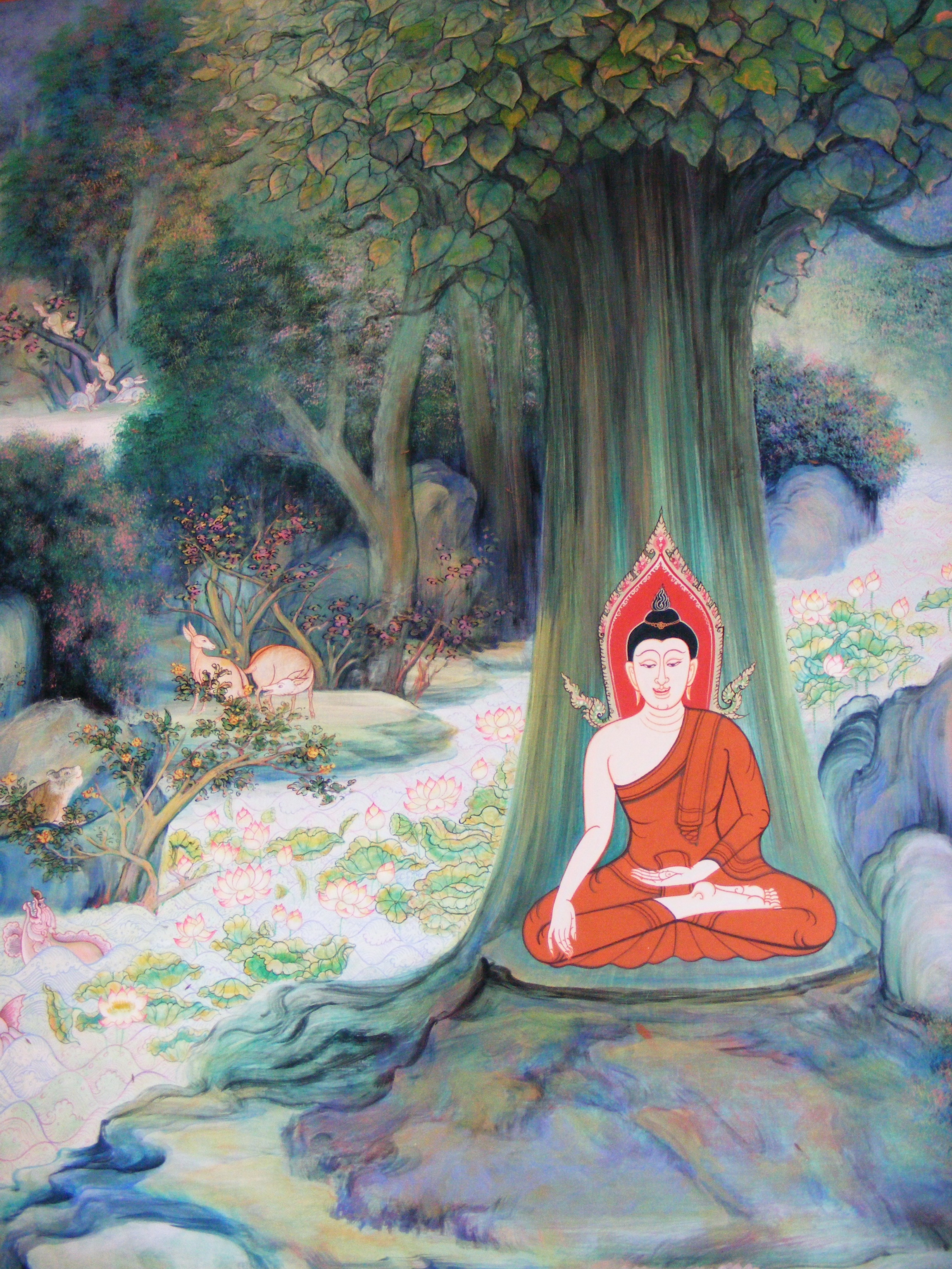 Wat Phra Yuen Phutthabat Yukhon Location: Wat Phra Yuen Phutthabat Yukhon Amphoe Laplae, Uttaradit Province, Thailand.